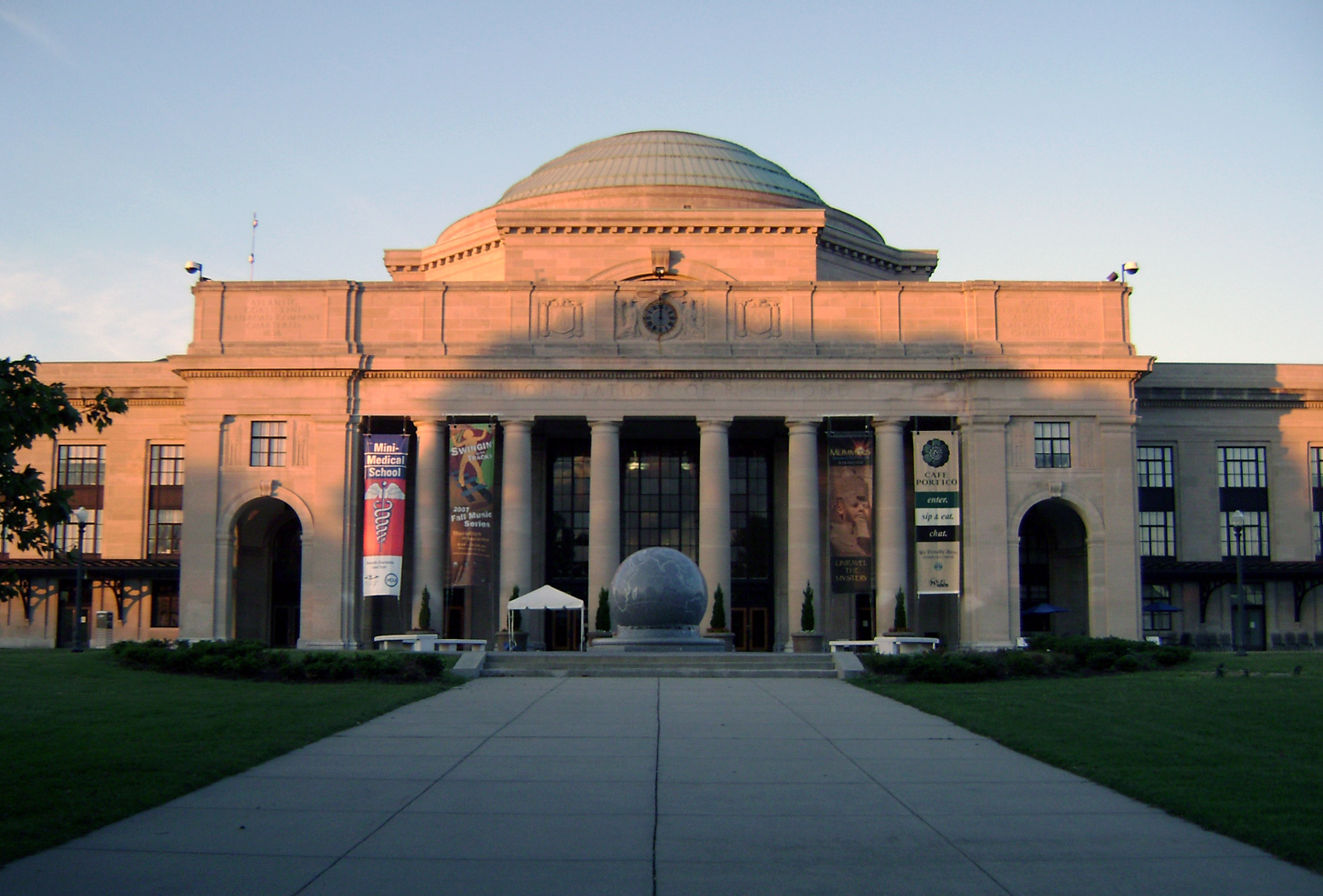 Picture of the Science Museum of Virginia in Richmond, taken on September 16, 2007.